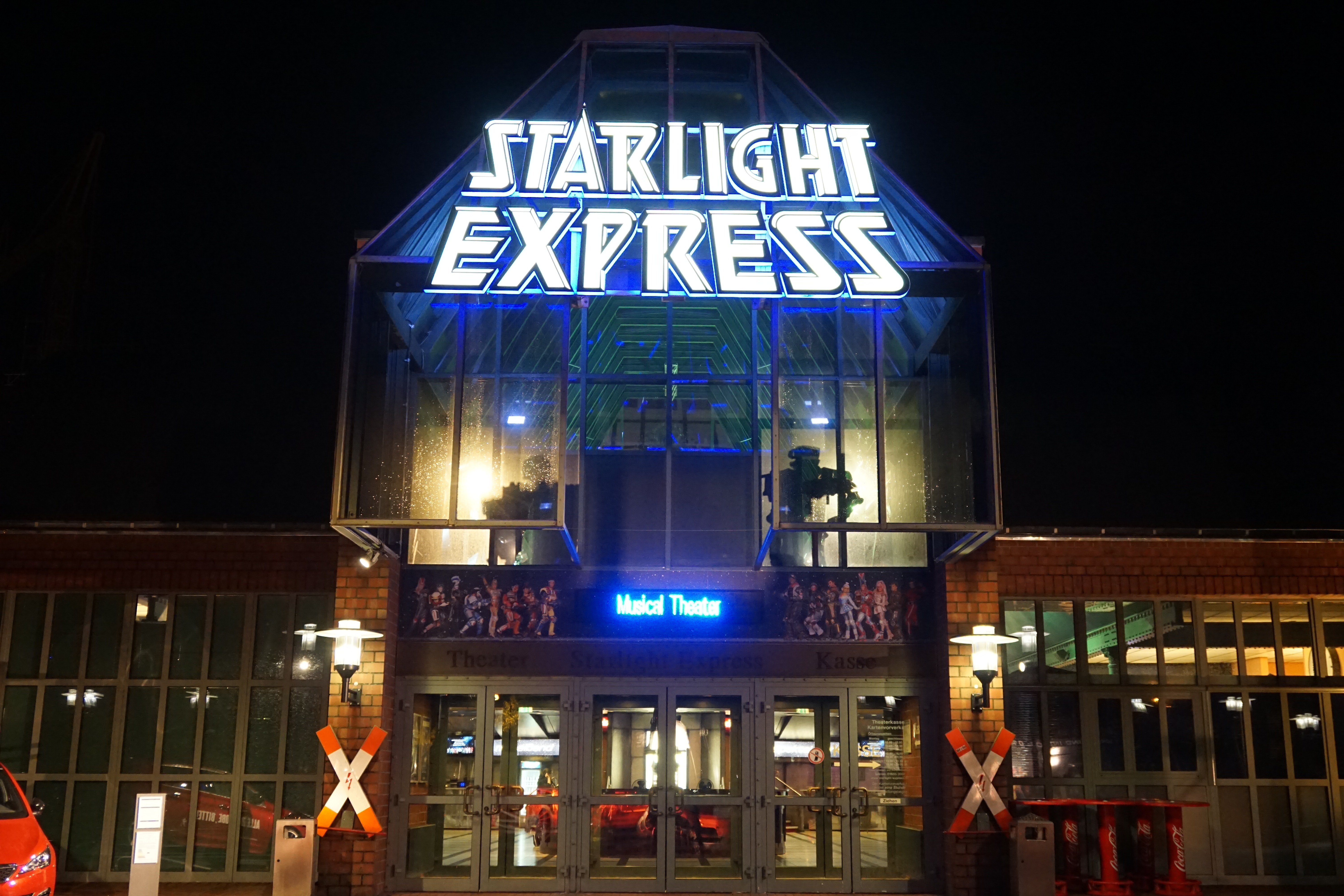 Portal of the Starlight Express Theater in Bochum.